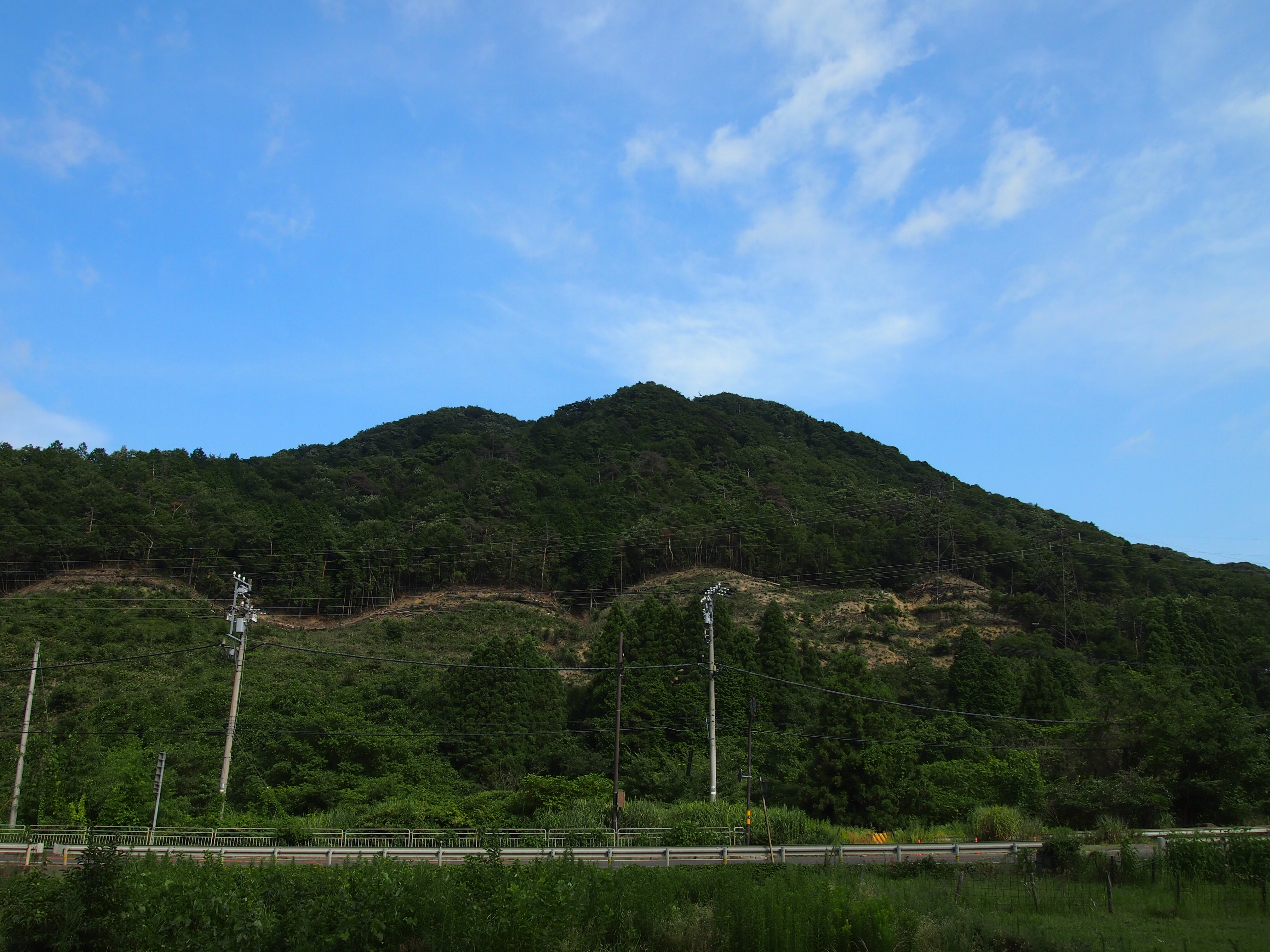 Miashi-fuji seen from Hachijo-iwa(big rock)